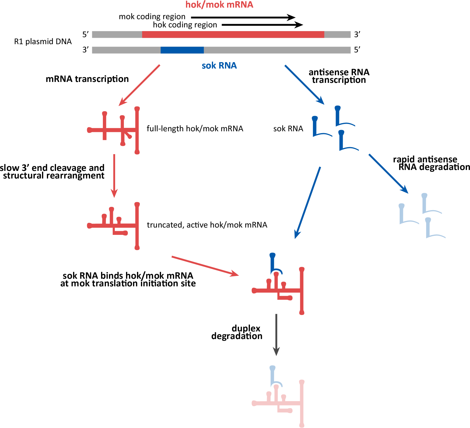 The Hok toxin and the Sok antitoxin are co-expressed from the same locus. Sok binds the Hok mRNA and initiates degradation of both transcripts.